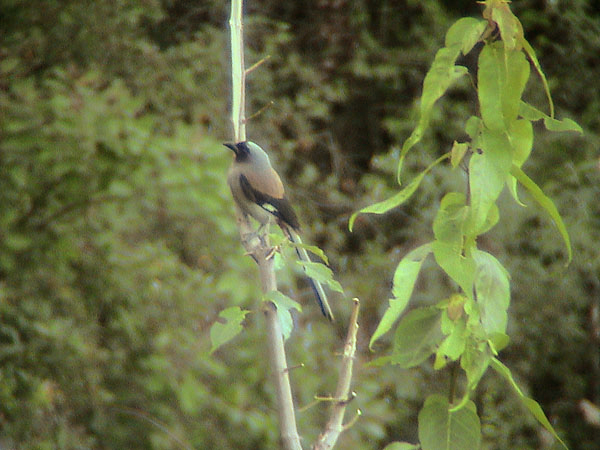 Grey Treepie Dendrocitta formosae in Uttarakhand, India.